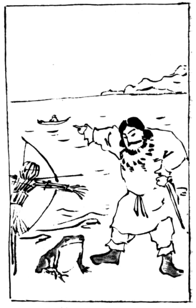 Ōkuninushi asks the toad.